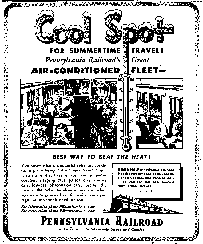 Advertisement, "Pennsylvania Railroad – Cool Spot For Summertime Travel! Pennsylvania Railroad’s Great Air-Conditioned Fleet- Best Way to Beat the Heat." Converted to black and white with GIMP.